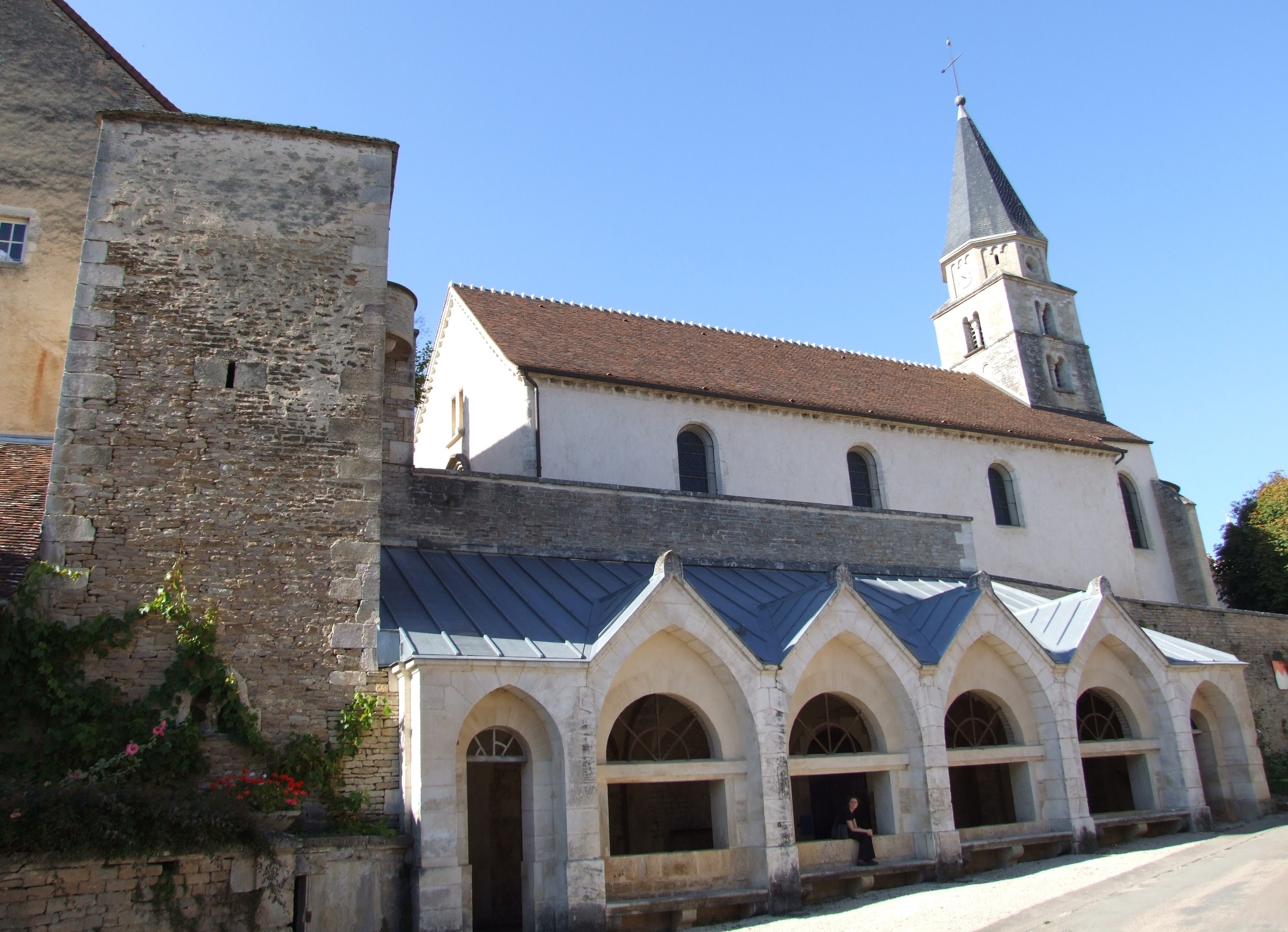 Wash house, Salives, Burgundy, FRANCE